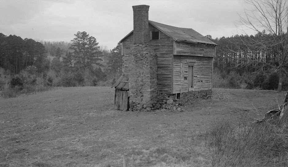 The Yancy Cabin, U. S. Route 29 vicinity, Gretna, Pittsylvania County, Virginia. Also known as the Yates Tavern. Historic American Buildings Survey, Library of Congress, Washington, D. C.